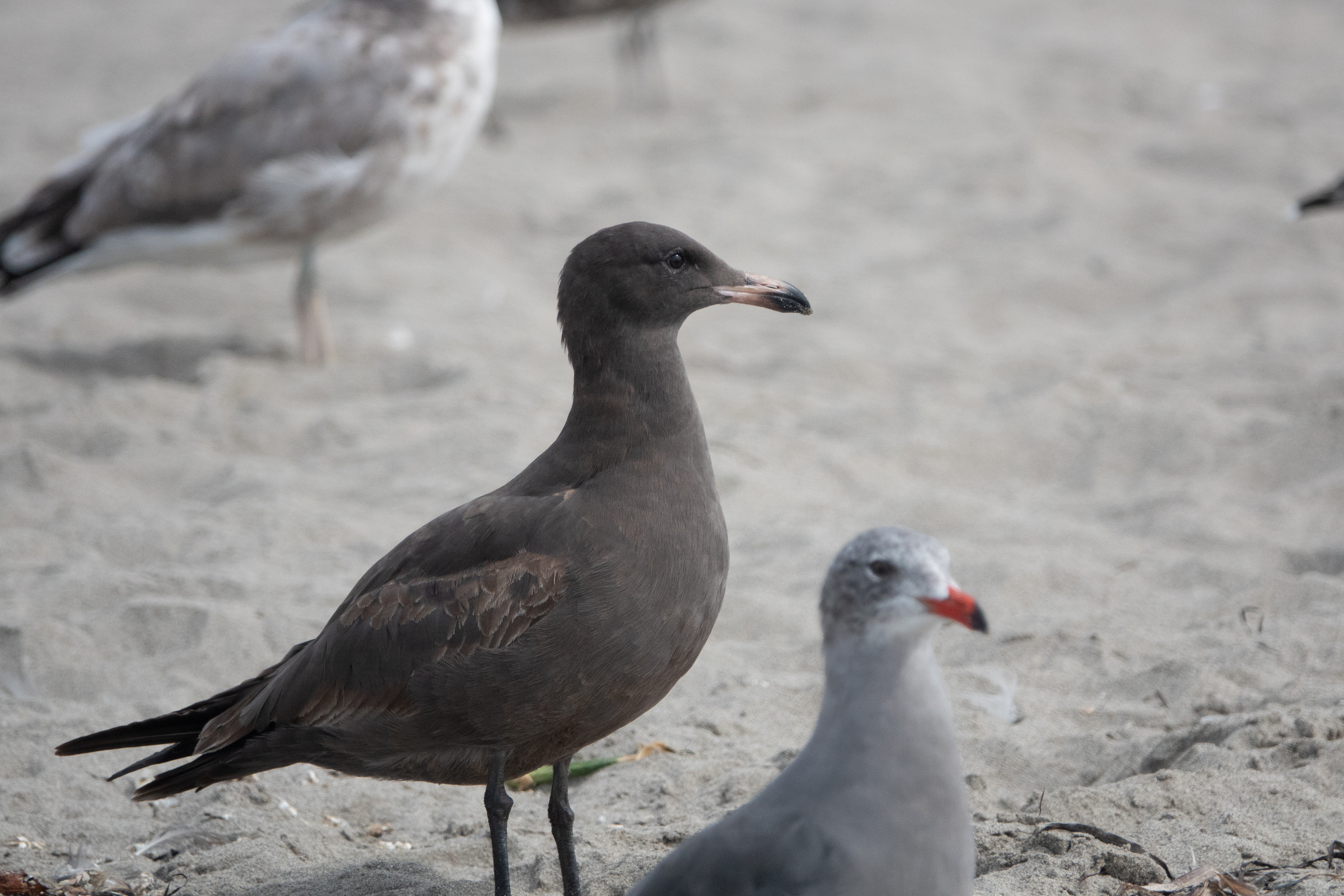 Heermann's Gull (1st winter) | Stinson Beach | CA|2018-10-01|12-26-03